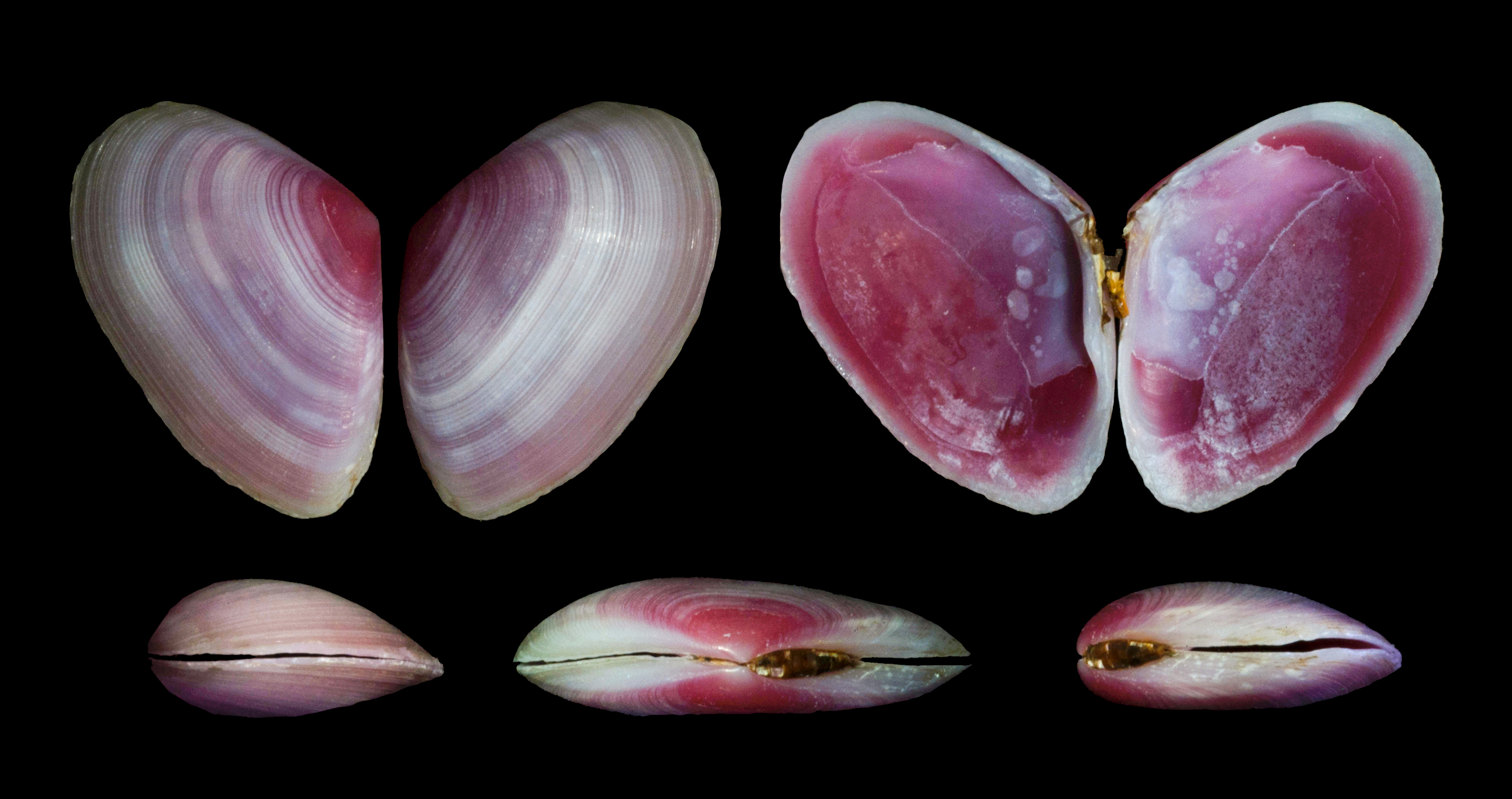 Eurytellina lineata (Turton, 1819) from La Restinga Bay, Margarita island